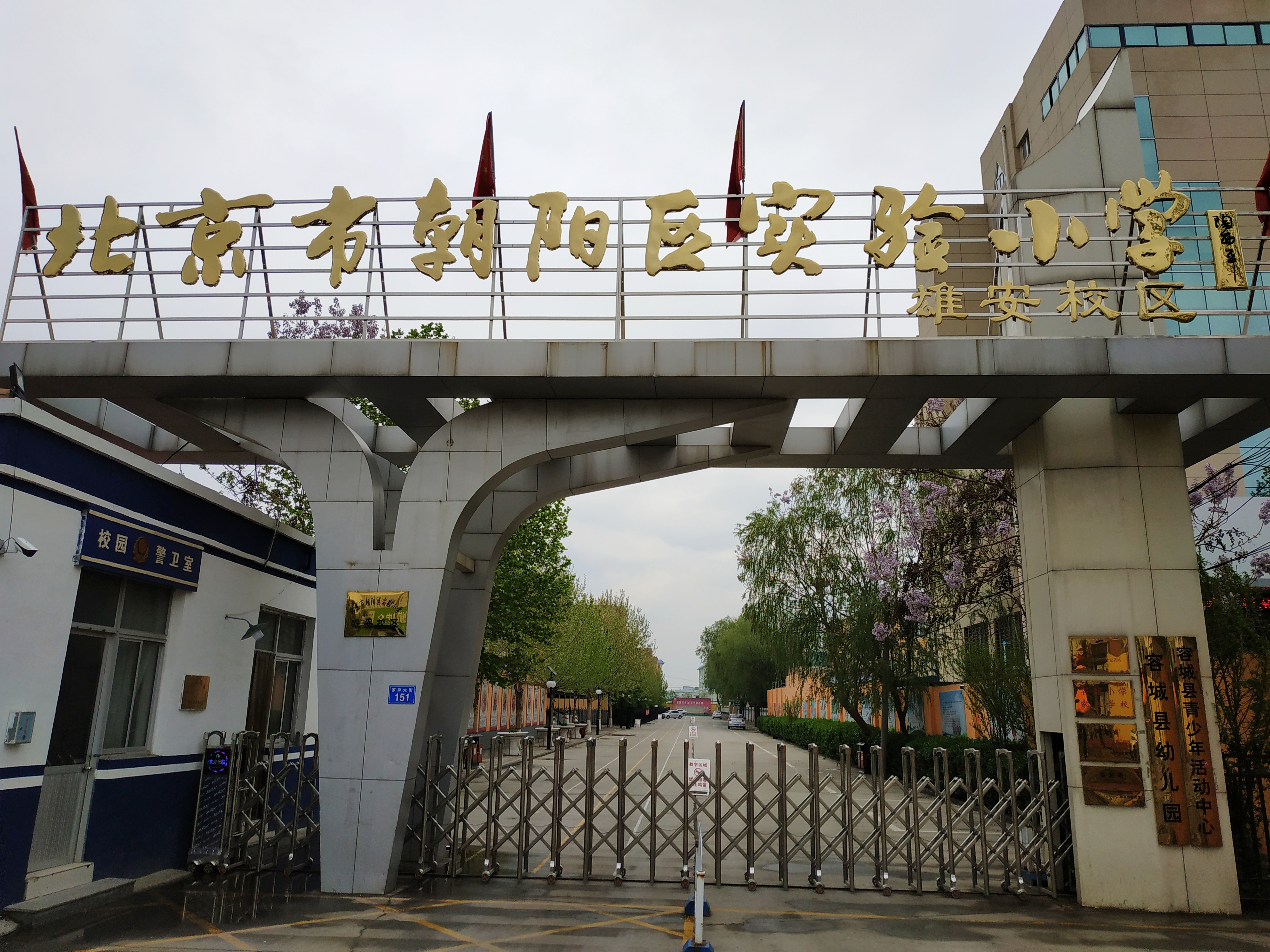 Experimental Elementary School of Chaoyang District, Xiong'an Campus.